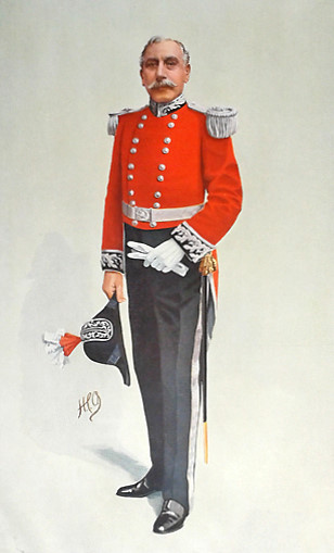 Sir Joseph Lyons ('Men of the Day. No.1219. "Joe."') by 'H.C.O.' chromolithograph, published in Vanity Fair 3 March 1910 14 1/8 in. x 9 1/2 in. (359 mm x 242 mm) paper size